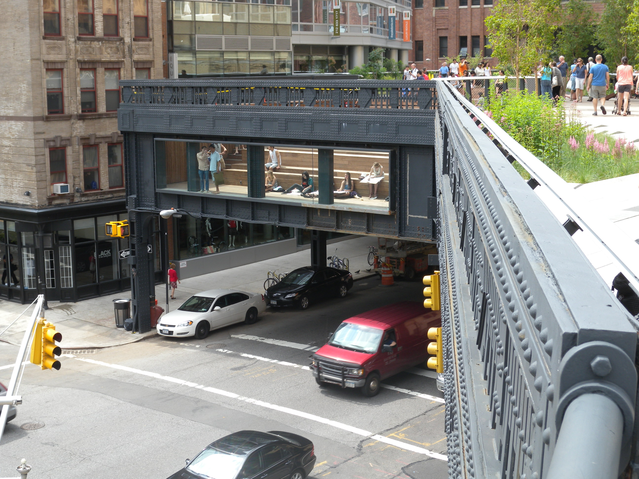 At 10th Avenue Square in High Line Park, a window over the avenue provides unusual views.